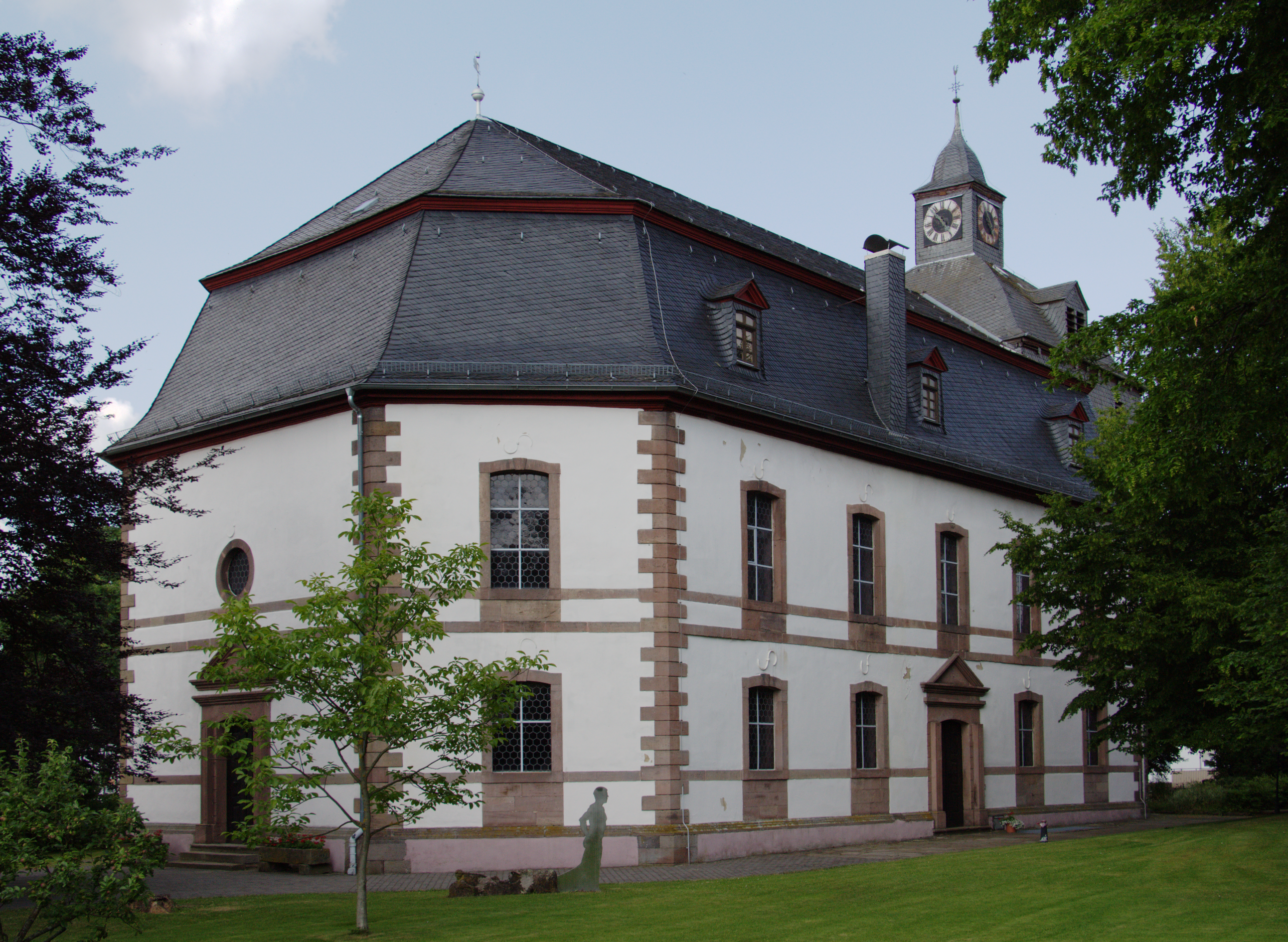 Protestant church in Muecke Ober-Ohmen, Hesse, Germany